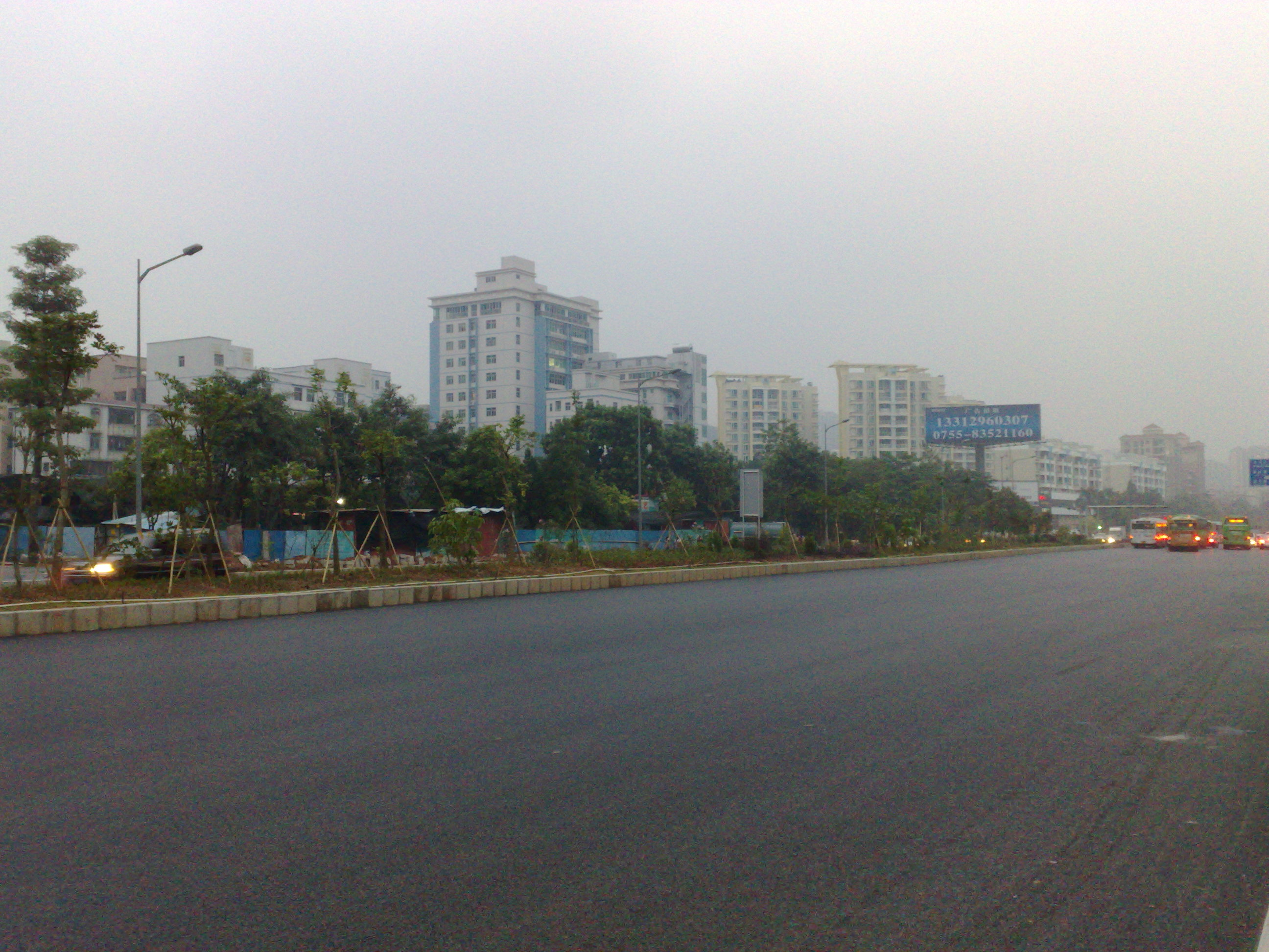 A street in the southwestern part of Longgang, Shenzhen